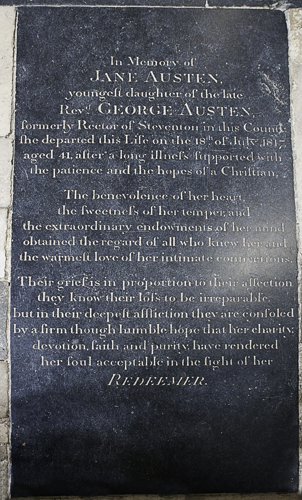 Jane Austen's memorial gravestone in the nave of Winchester Cathedral